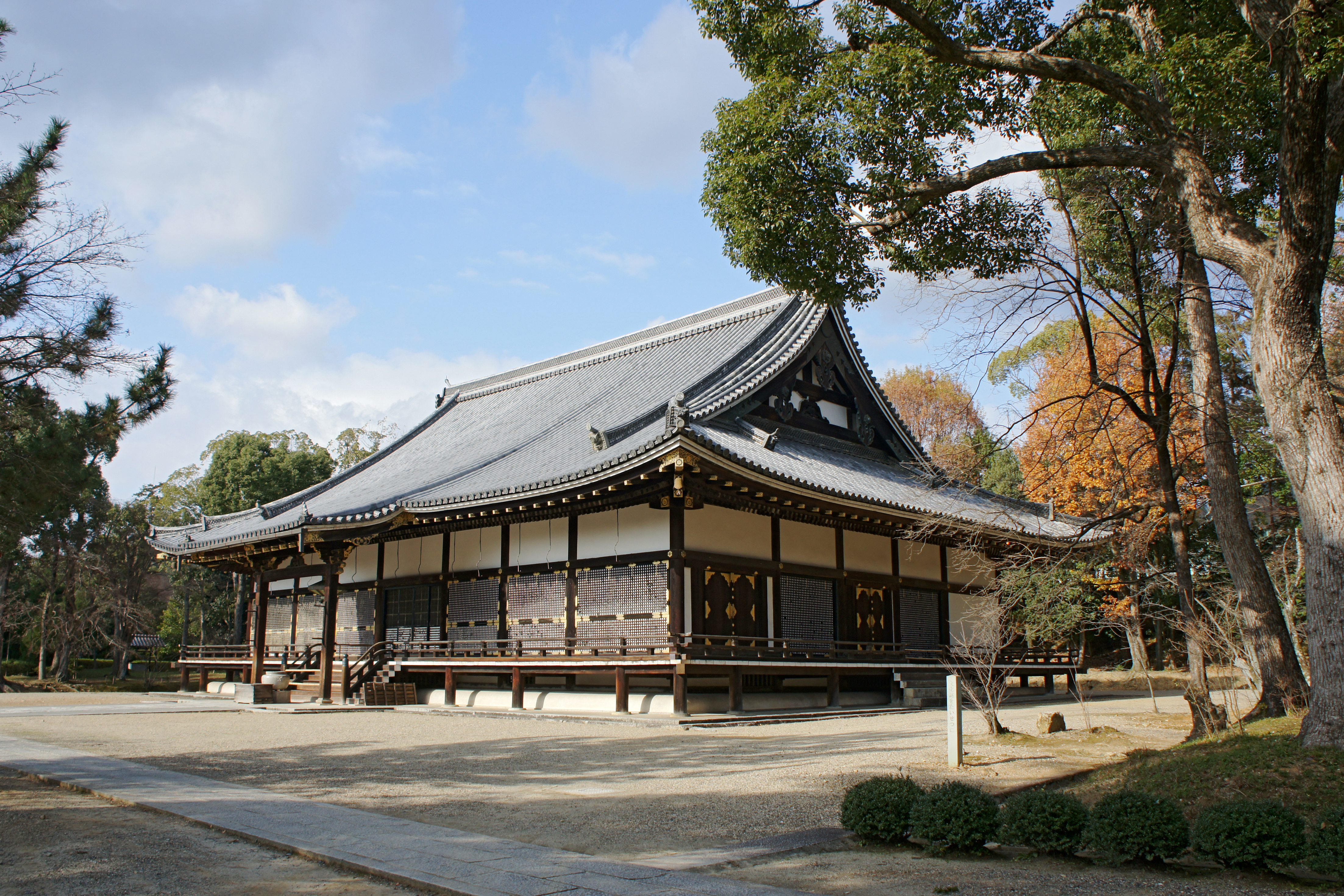 Ninna-ji's Golden Hall is Japan's National Treasure in Ukyō-ku, Kyoto, Kyoto Prefecture, Japan. Ninna-ji was registered as part of the UNESCO World Heritage Site "Historic monuments of ancient Kyoto".